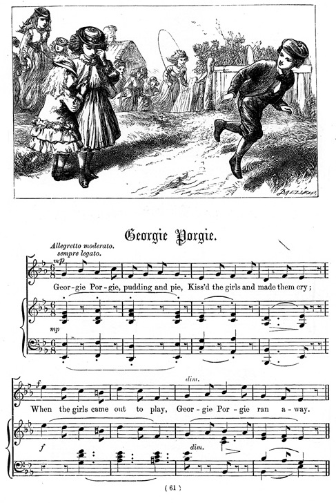 The words of the nursery rhyme "Georgie Porgie", illustrated by Edward Dalziel and set to music by James William Elliott, for National Nursery Rhymes (London, 1870)